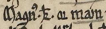 The name of Magnús Óláfsson, King of Mann and the Isles (died 1265) as it appears on folio 122r of AM 45 fol (Codex Frisianus): "Magnus konvngr or Man".